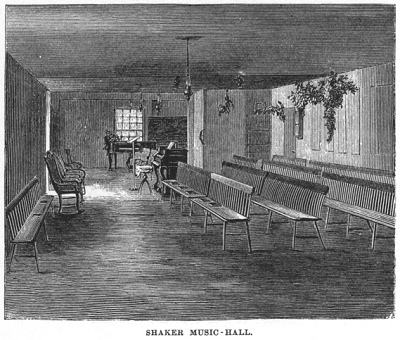 A Shaker Music Hall, The Communistic Societies of the United States, by Charles Nordhoff, 1875